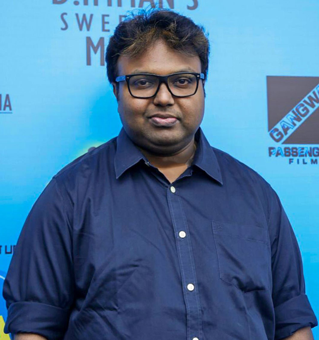 D Imman at Panjumittai Audio Launch